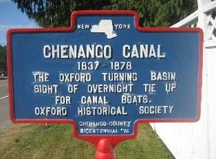 Historic marker #14 the Oxford turning basin site of overnight tie up for canal boats at Oxford, NY